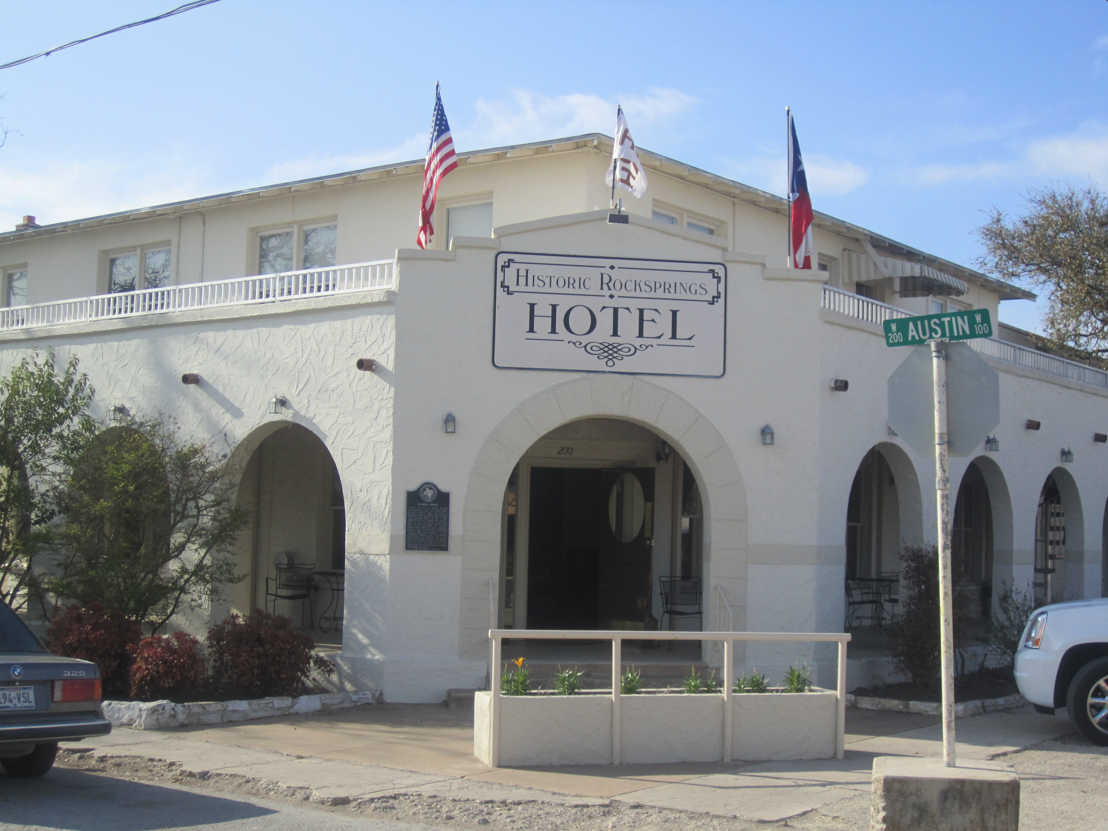 I took photo with Canon camera in Rocksprings, TX.